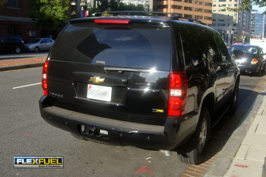 Chevy Tahoe E85 Flex fuel version, at Washington, D.C.